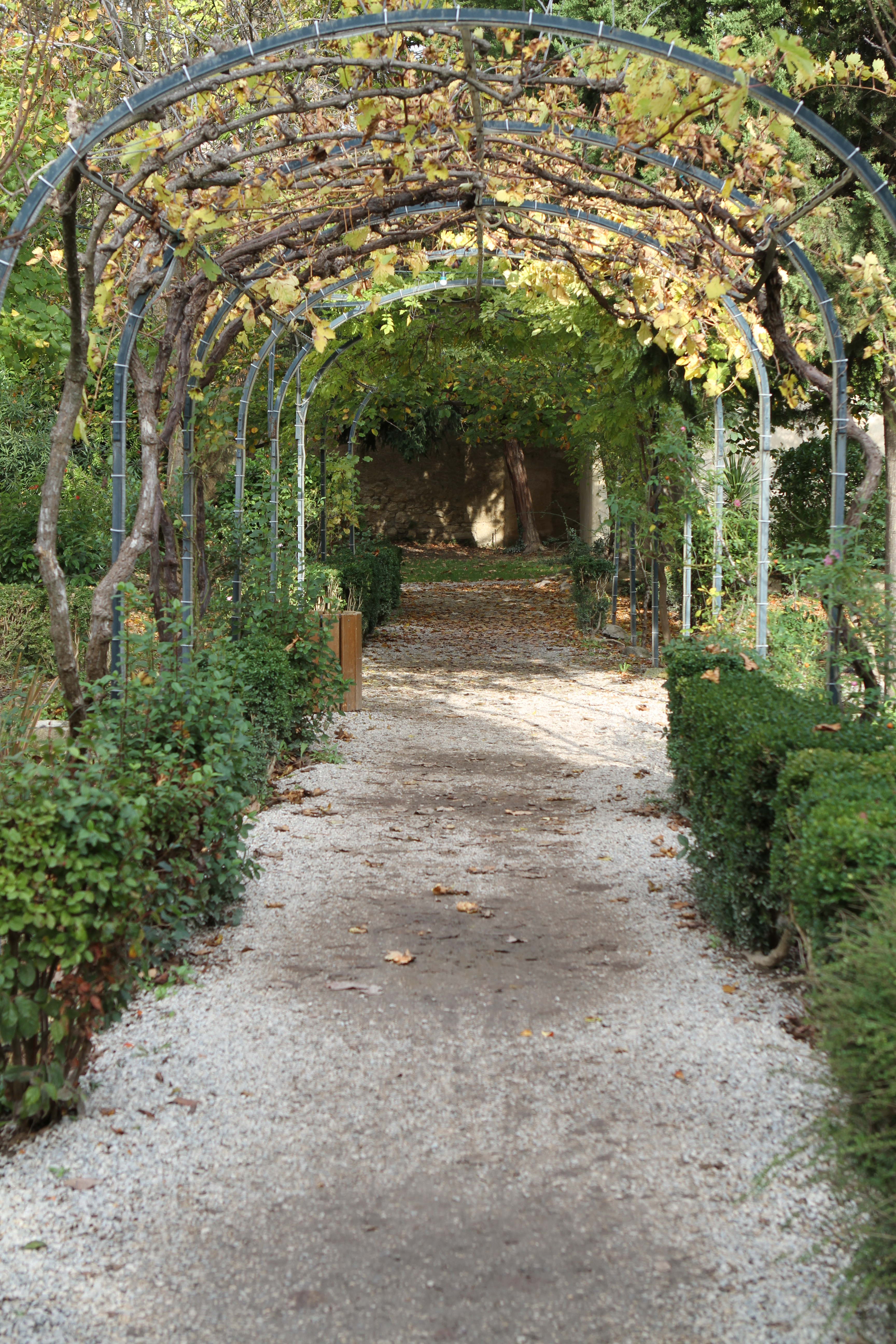 The park Maureau at Pélissanne (Bouches-du-Rhône, France)